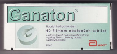 A blister package of Ganaton (itopride) 50mg tablets packaged for distribution in the Slovak Republic. This package contains 40 tablets in individual unit doses. Manufactured by ABBOTT.